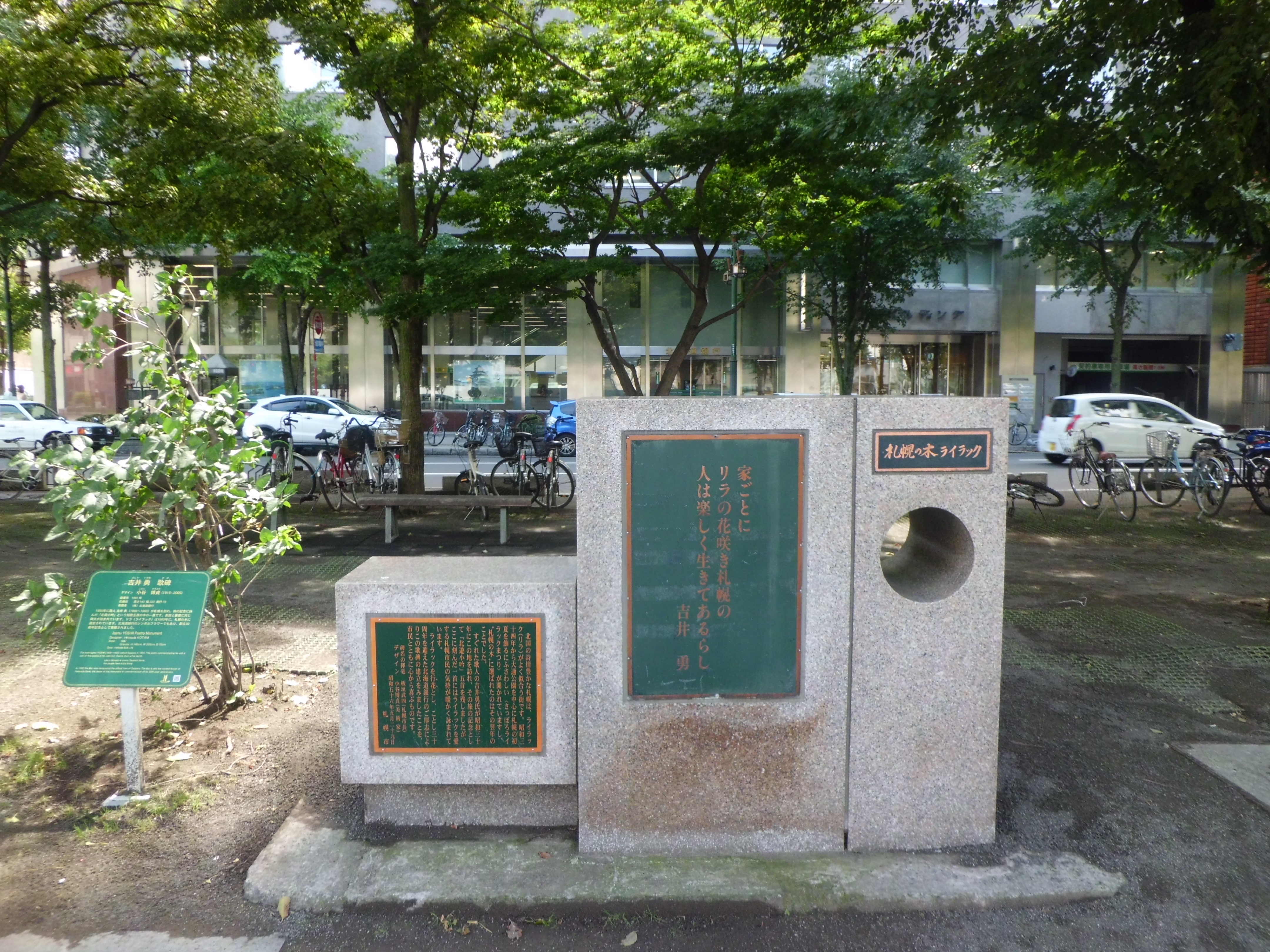 Tanka Monument of Isamu Yoshi'i